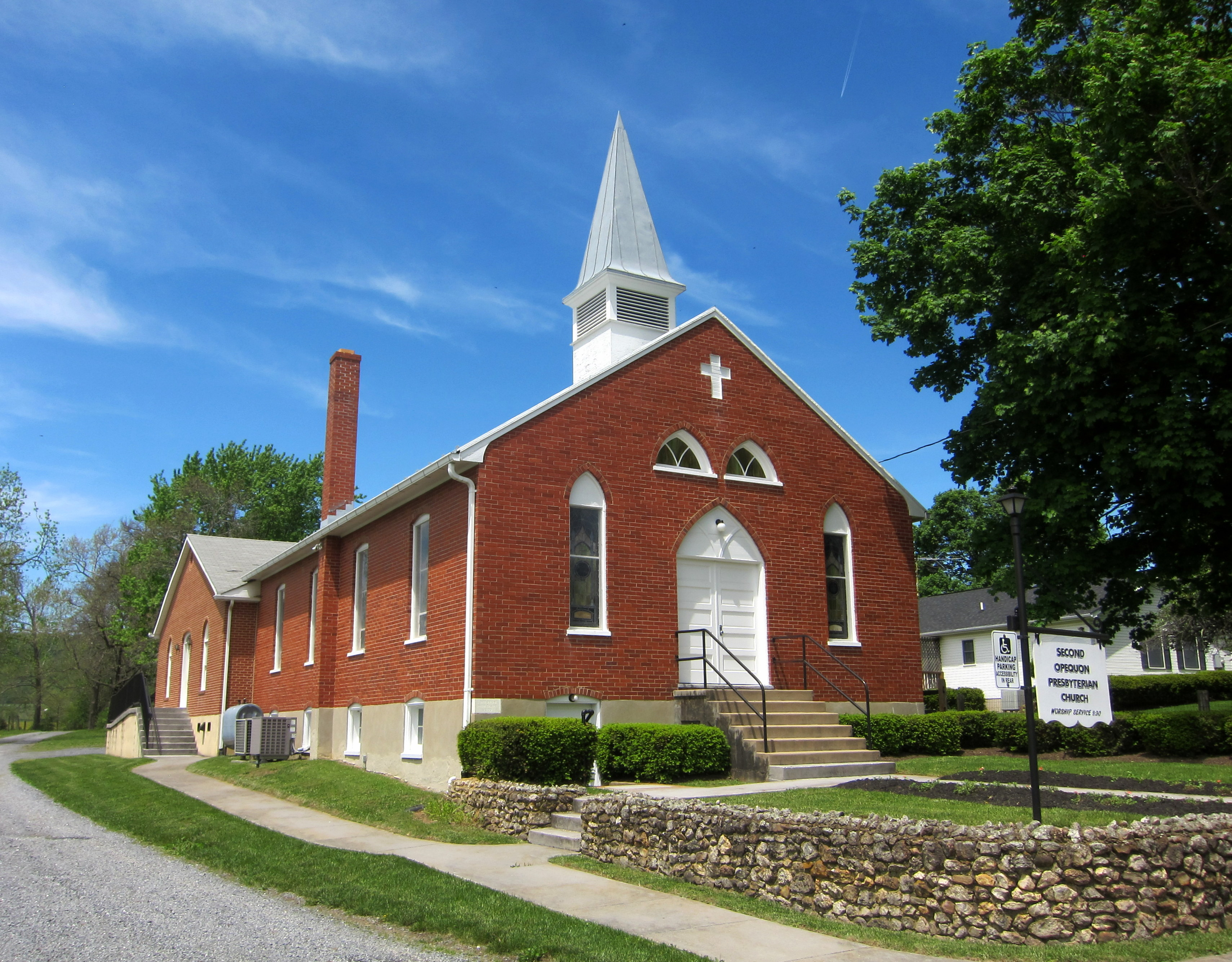 Second Opequon Presbyterian Church located at 107 Miller Road near Winchester, Virginia, United States. The building is a contributing property to the Opequon Historic District